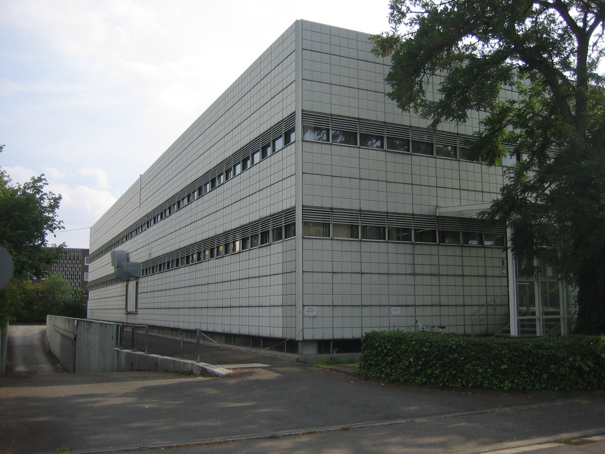 Arne Jacobsen building for Novo Nordisk in Mainz, north east side